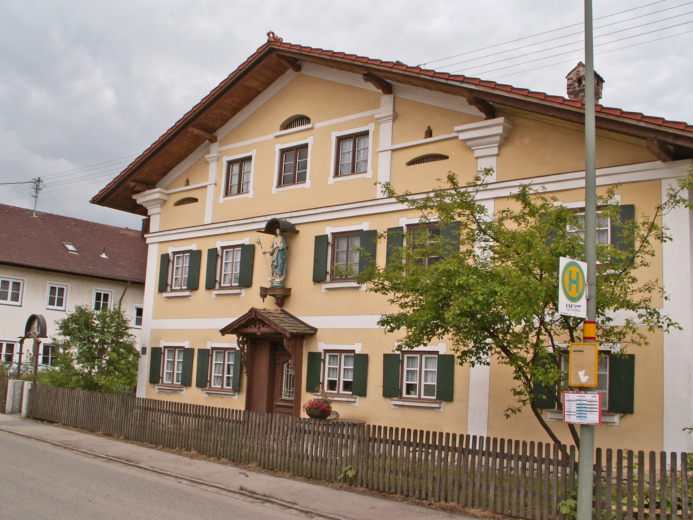 Allgäuer Str. 19 in Baisweil